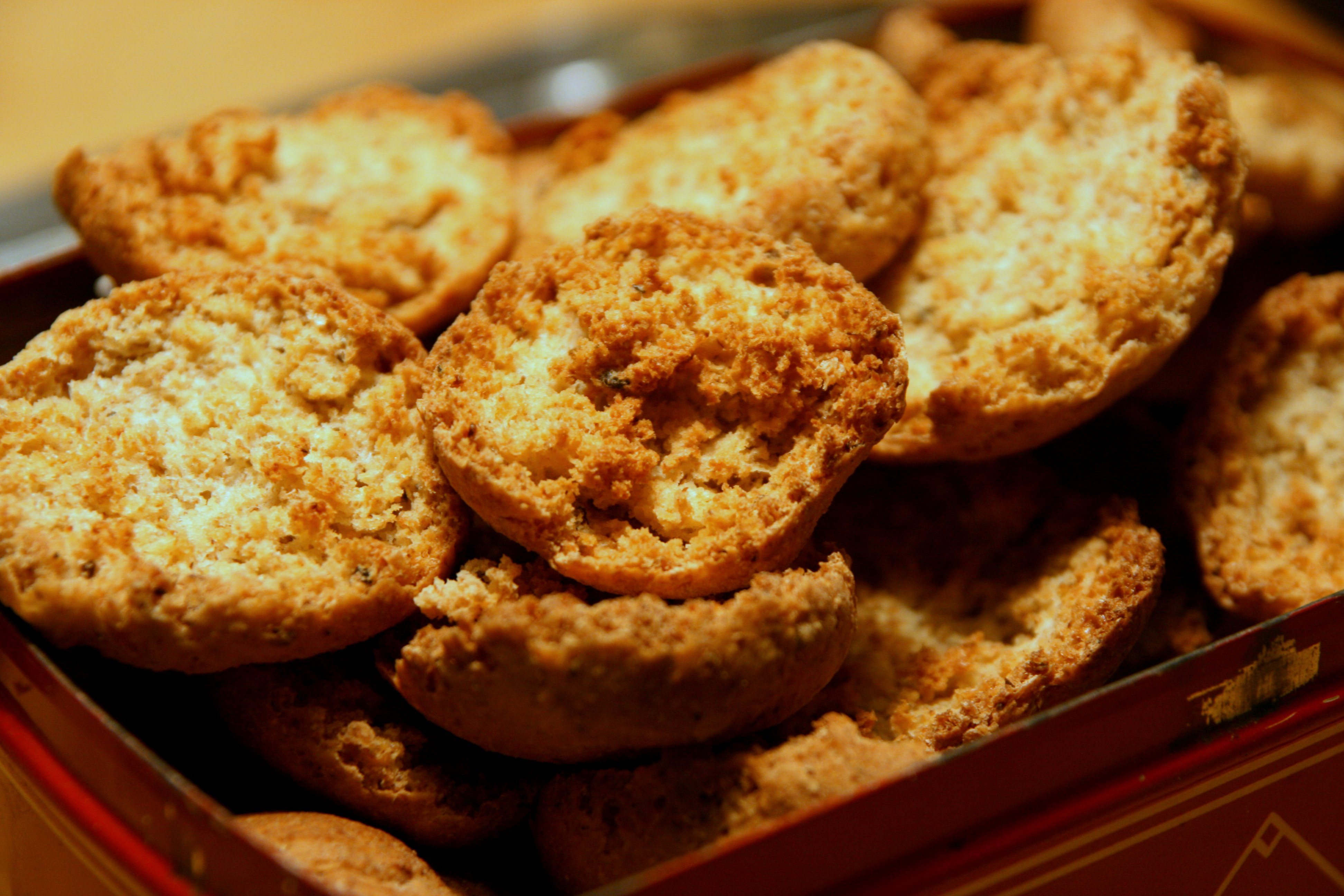 Crisp rolls